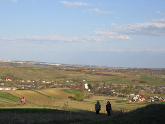 Valeriu Catargiu